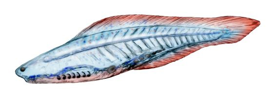 The primitive vertebrate Haikouichthys. This file is the cropped version of File:Haikouichthys NT.jpg by Nobu Tamura